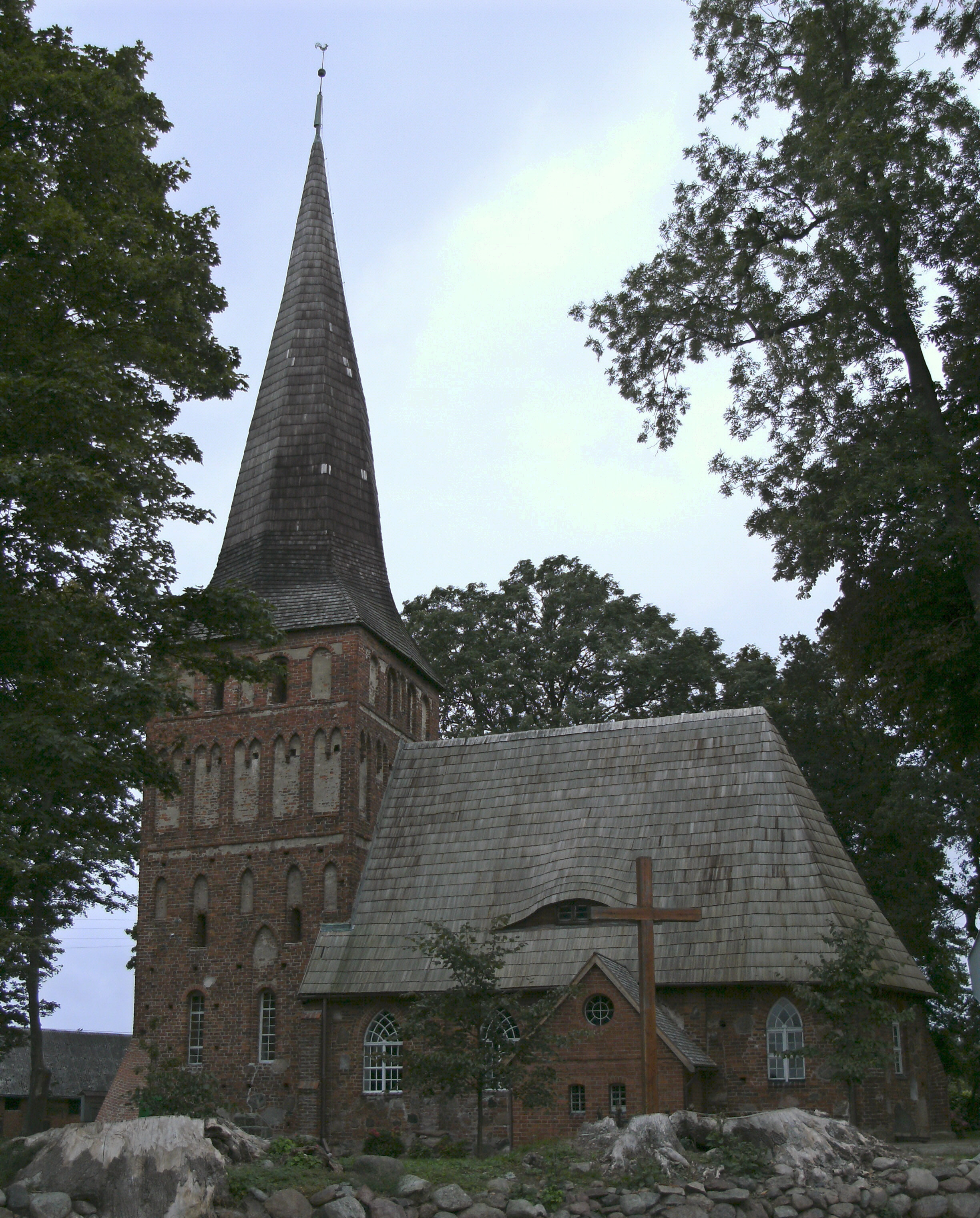 Church of Saint Mary Mother of God The Queen of Poland in Iwięcino (Poland, zachodniopomorskie). Built in XIV century by Cistercians.